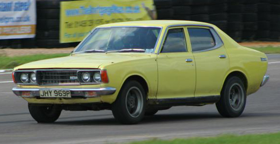 Datsun 180B (Bluebird) 610 series at a track meet at Mallory Park (UK), in 2007